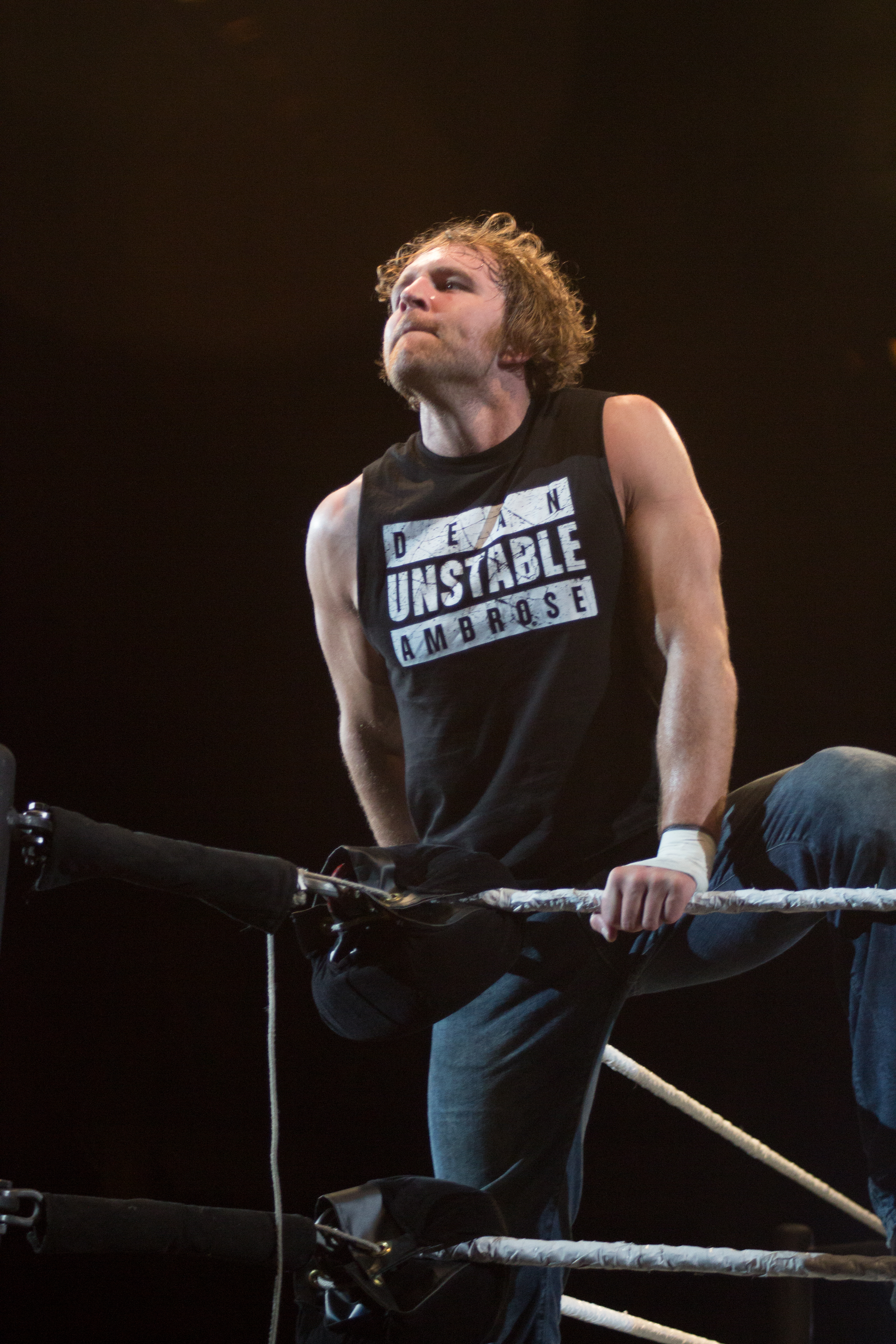 Dean Ambrose in 2015.